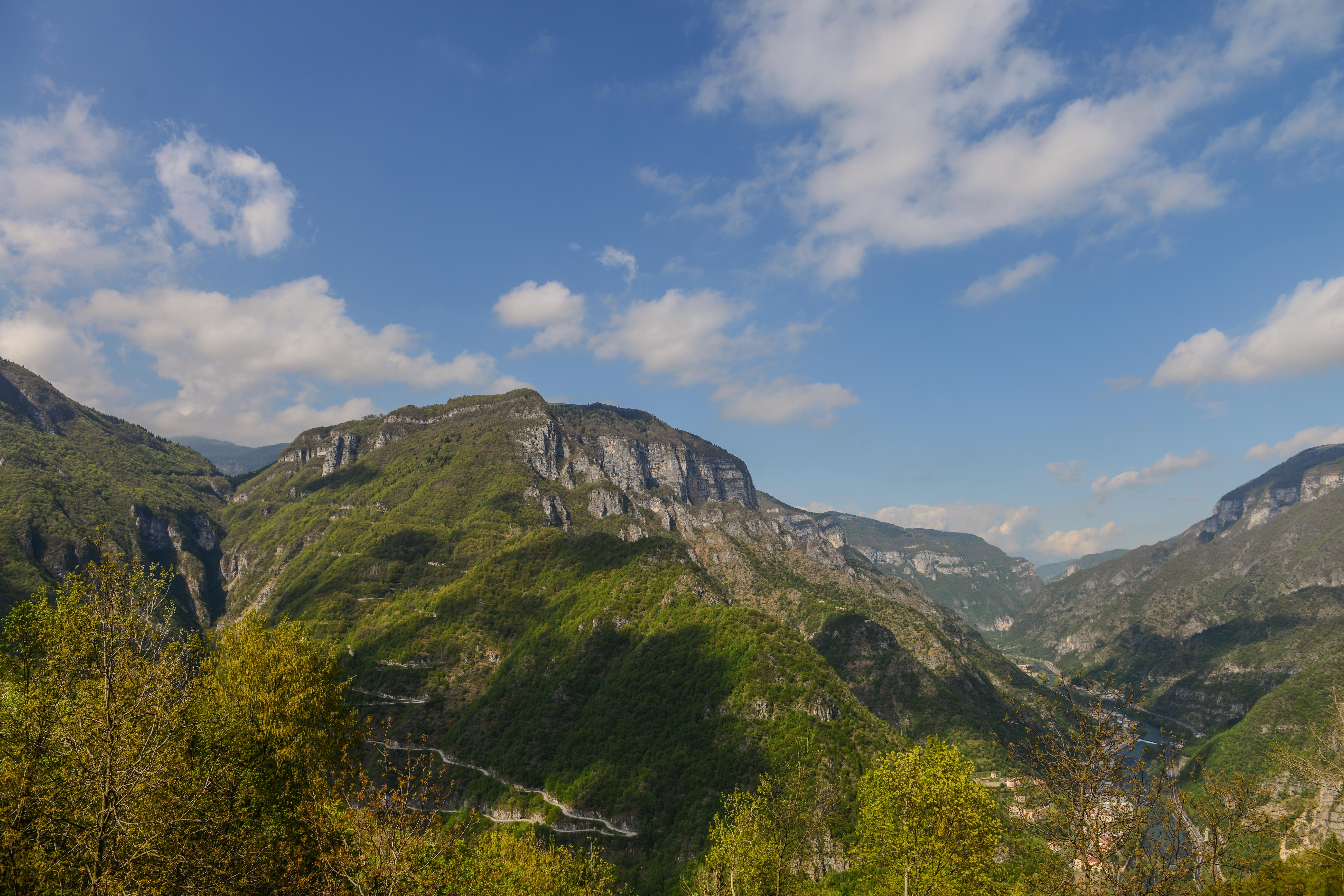 ex military street (left of the picture)